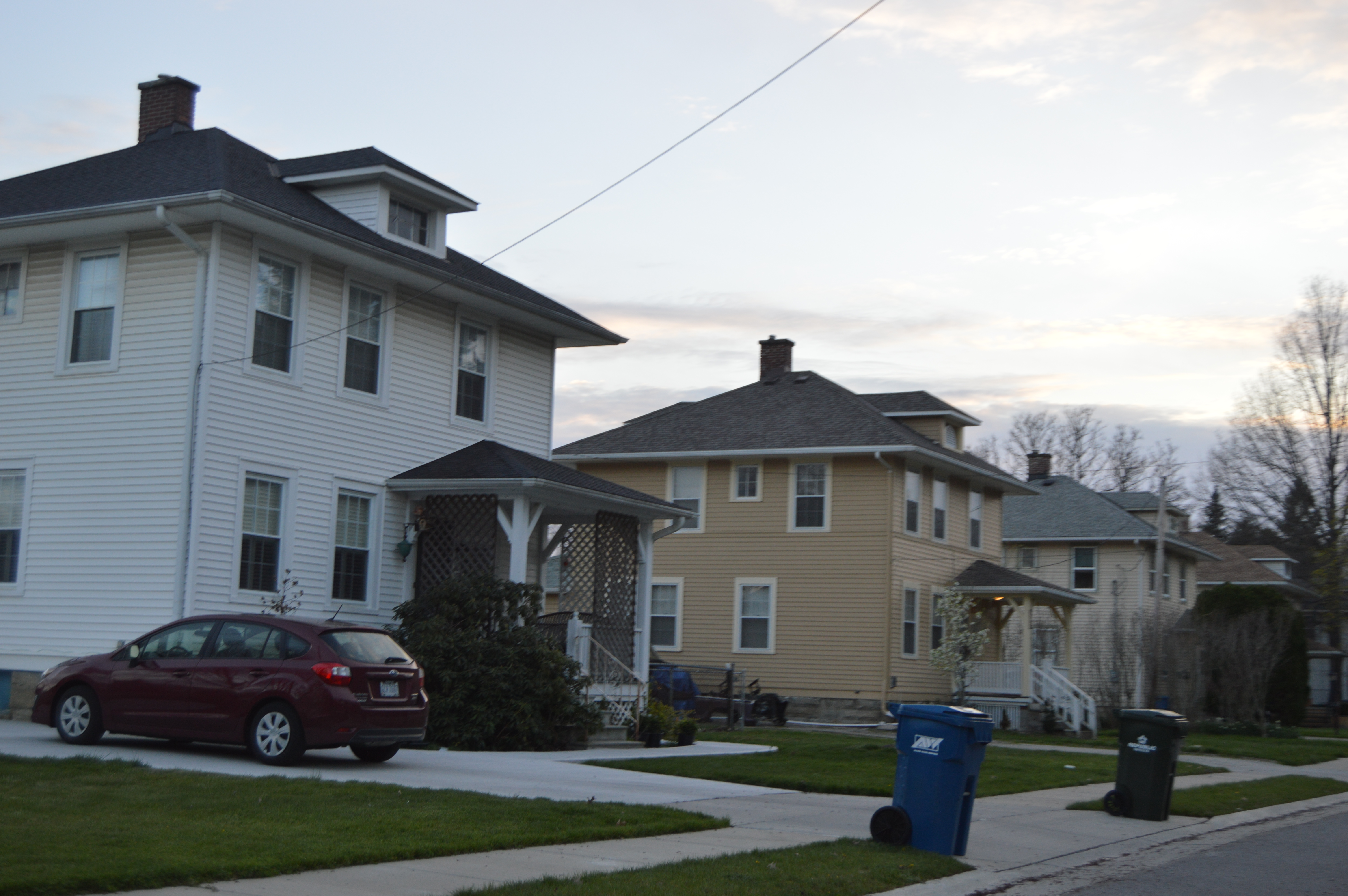 Houses on the southern side of Buckeye Street in South Amherst, Ohio, United States.